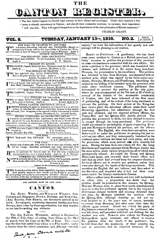 書名 The Canton register, 第 8 卷 編者 John Slade 出版者 Printed and pub. at the office of the editor, J. Slade., 1835 來源： 密西根大學 已數位化 2009年10月21日